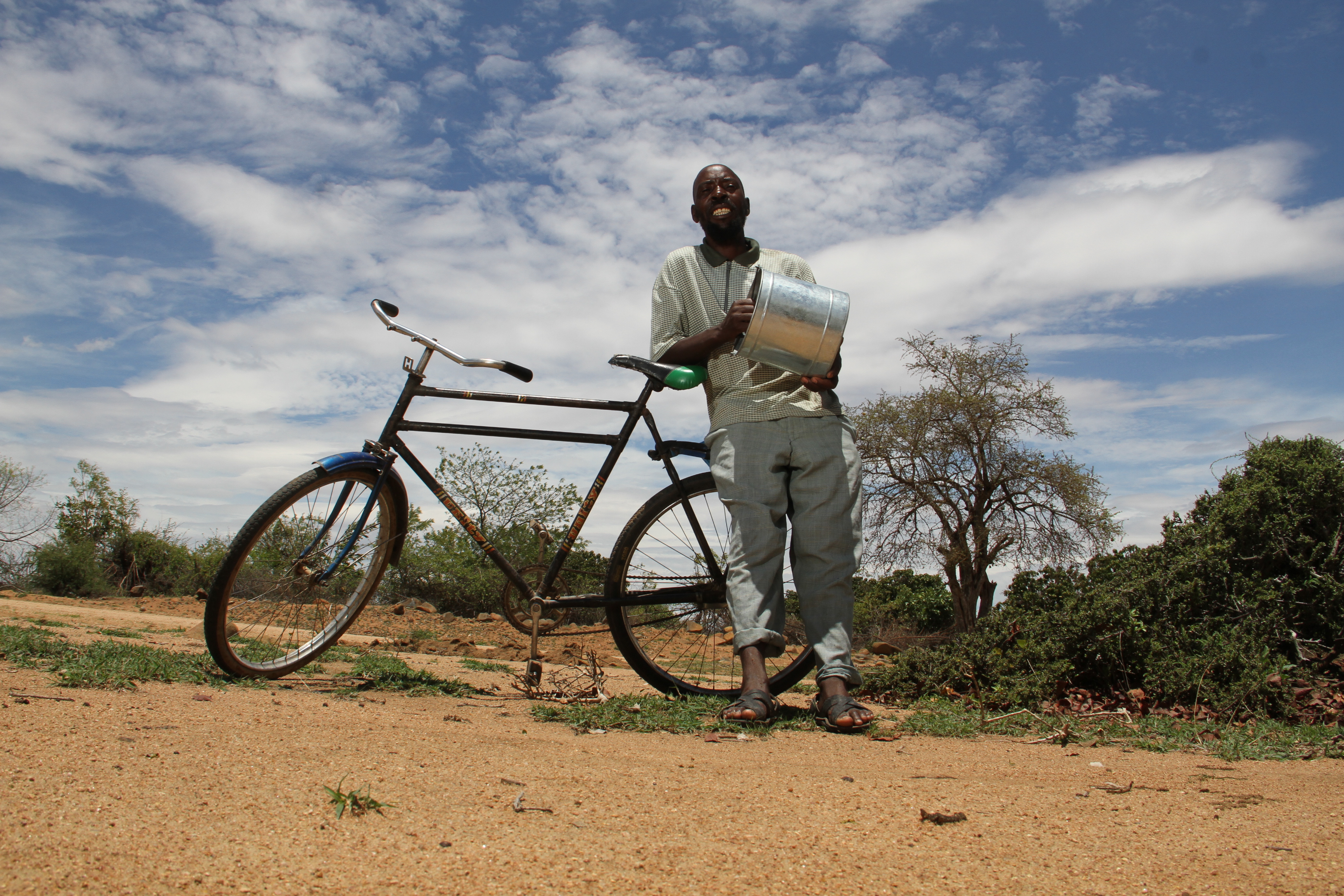 This is an image with the theme "Africa on the Move or Transport" from: Zimbabwe